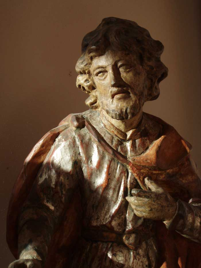 Statues signed by Martin Vinazer (* 1674 in St. Ulrich in Gröden; † 1744) in the parish church St. Ulrich.